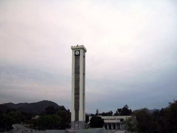 GIK Institute Clock Tower, during our FYP